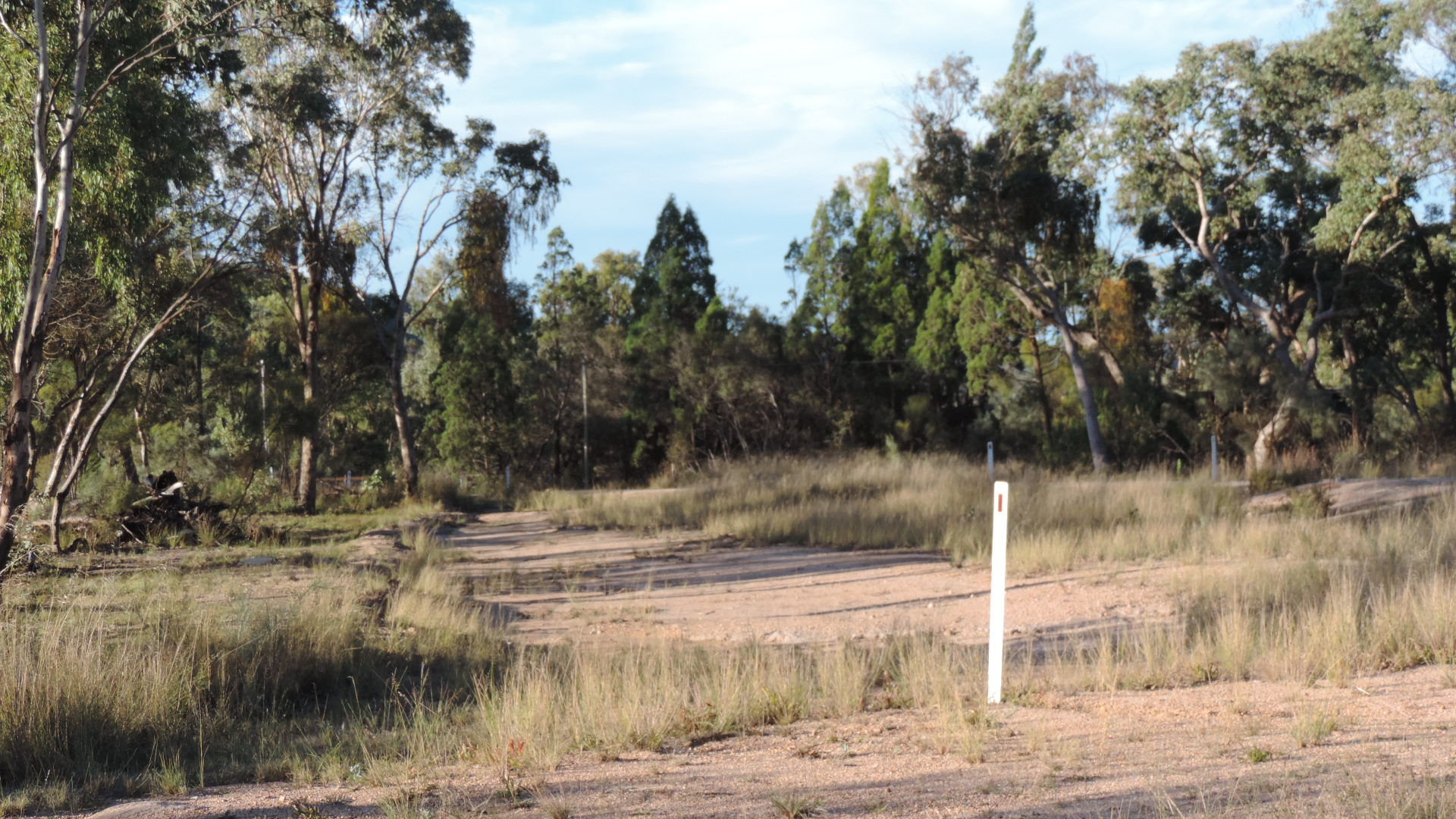 Landscape, Somme, Queensland, 2015